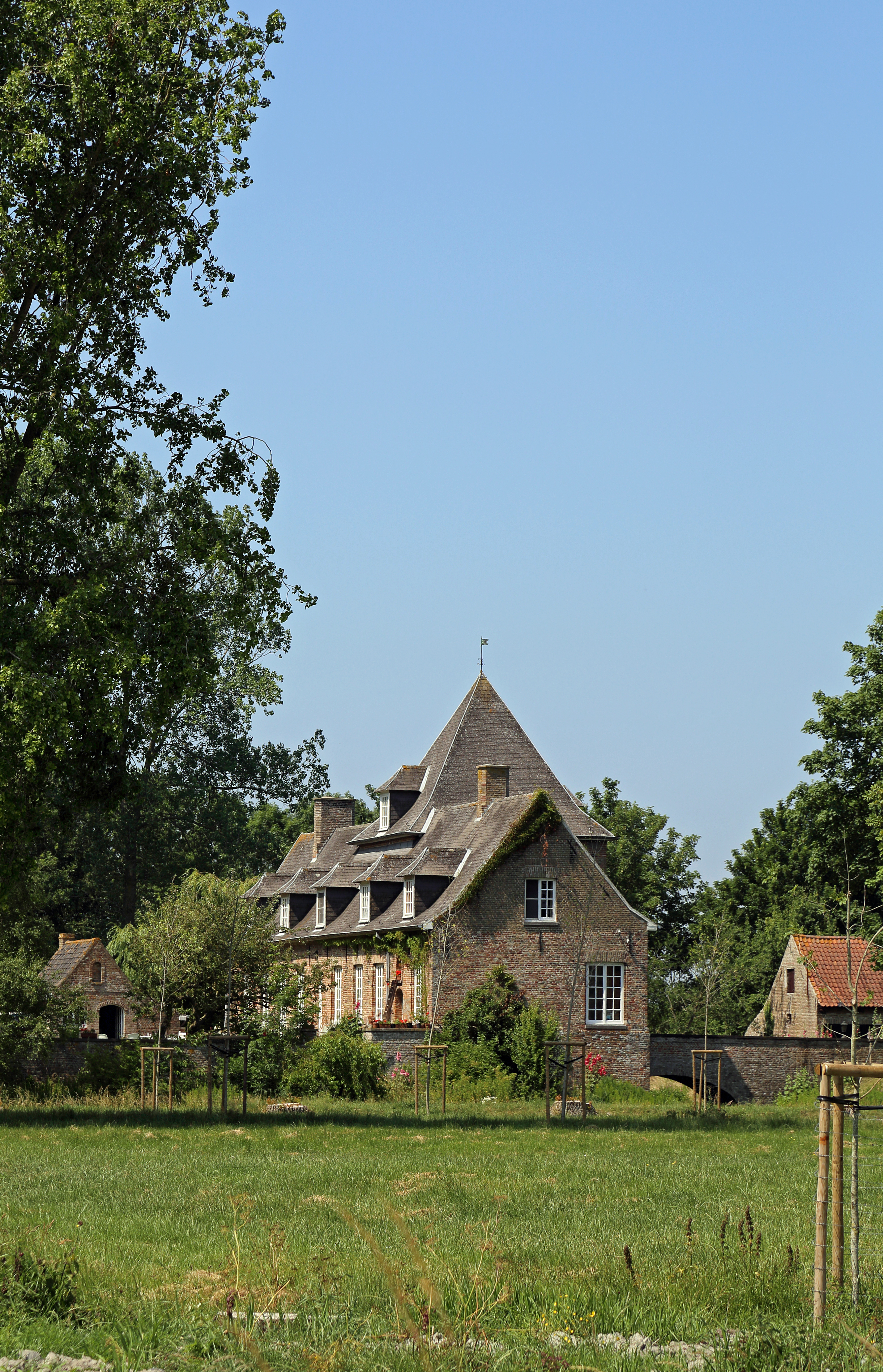 Zuienkerke (Belgium): Cleyhem castle